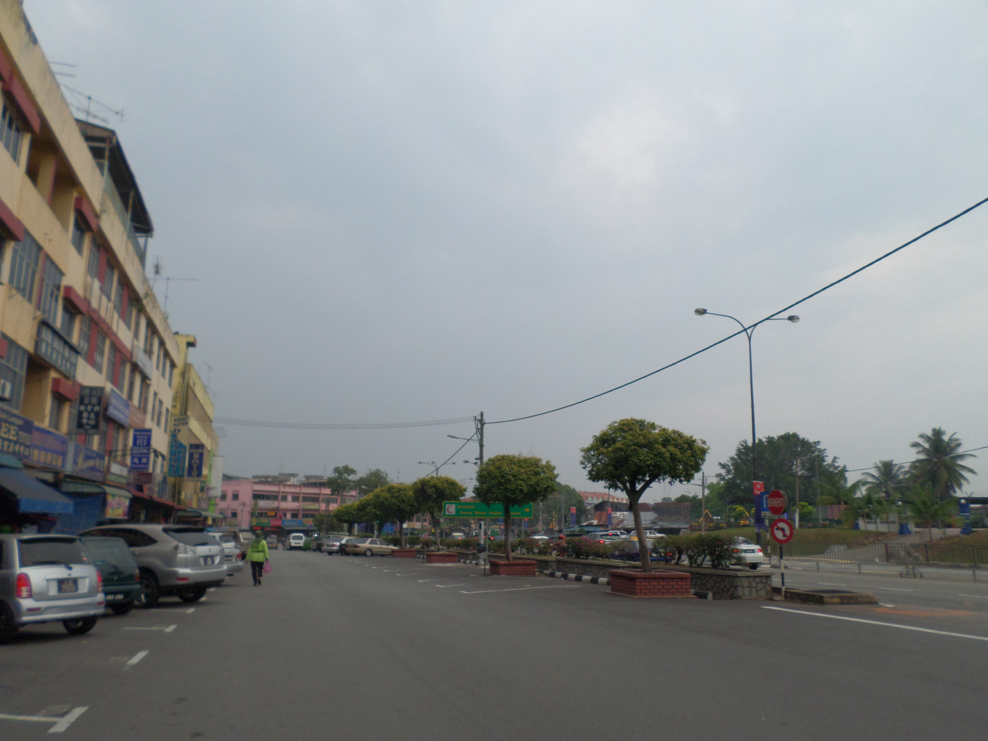 Simpang Renggam, Kluang, Johor, MalaysiaBahasa Melayu: Simpang Renggam, Kluang, Johor, Malaysia